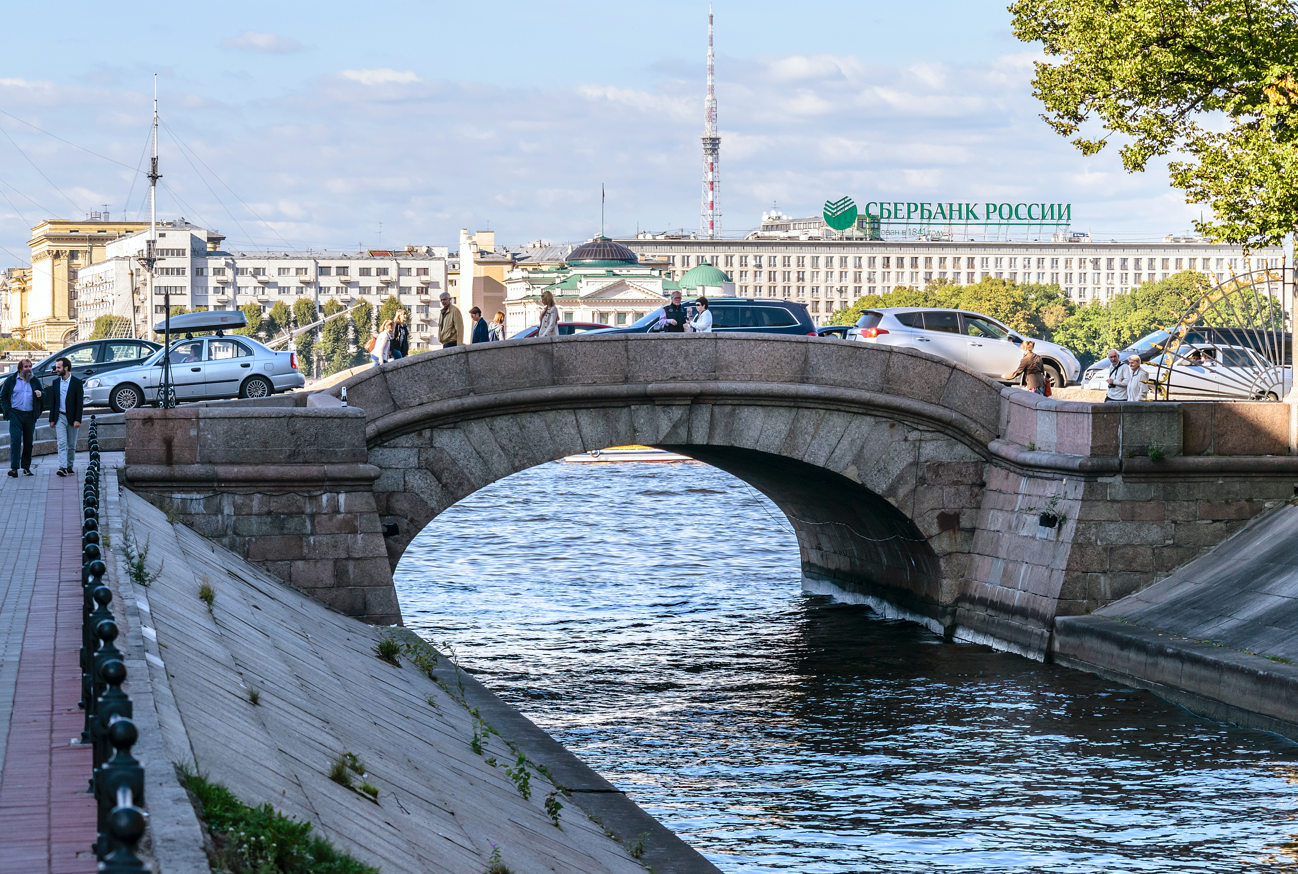 Verkhny Lebyazhy Bridge in Saint Petersburg